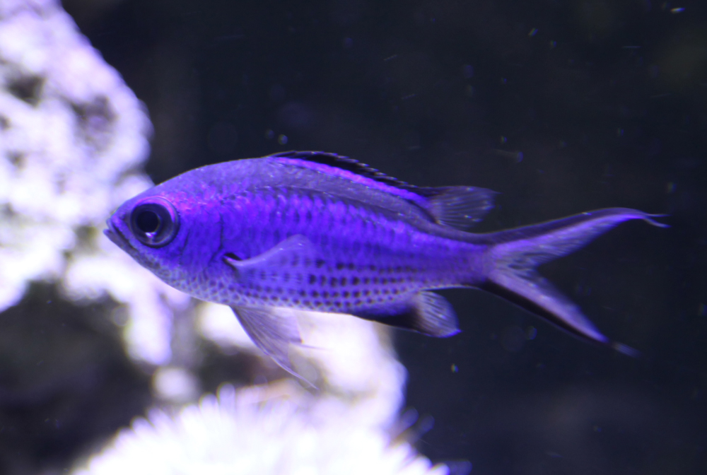 chromis cyanea